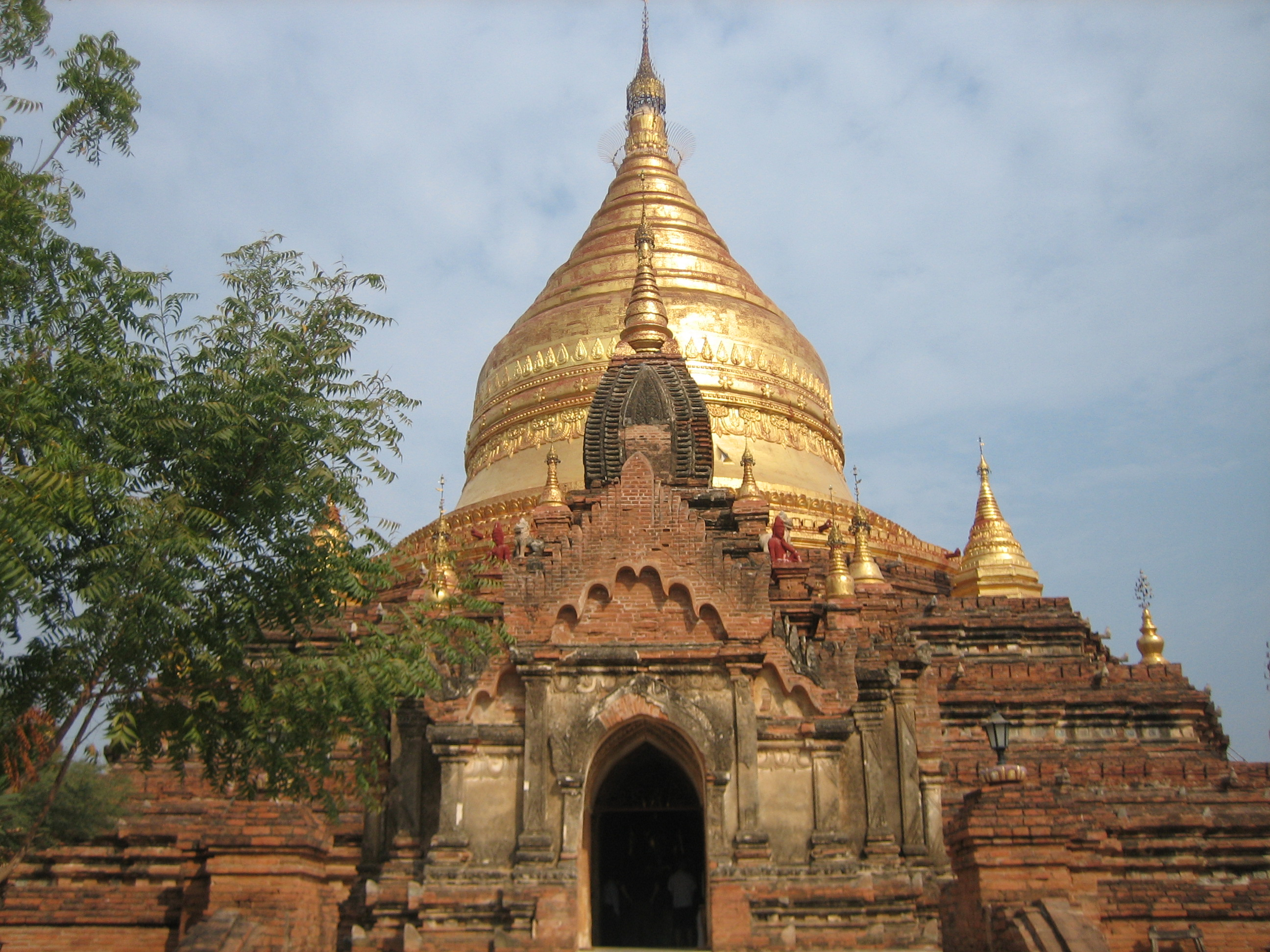 Dhamma Yazaka Pagoda, Bagan, Myanmar